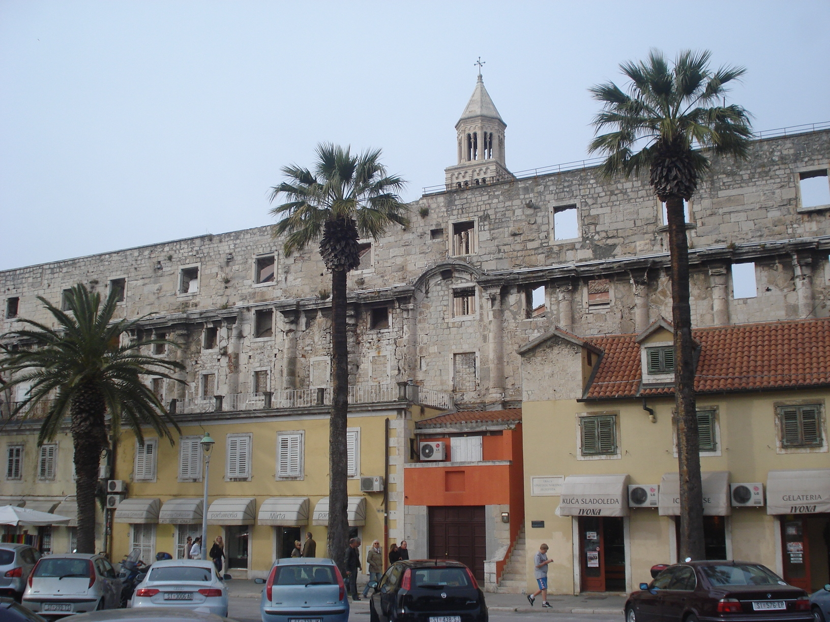 Diocletian's Palace in Split, Croatia - south view